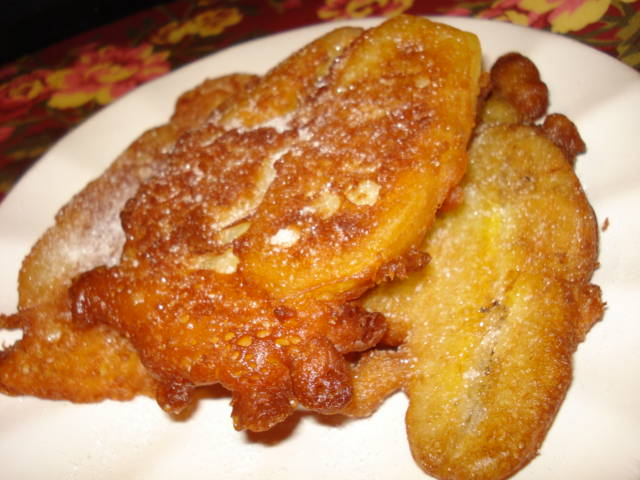 srataa